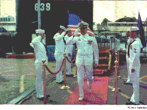 Decommissioning